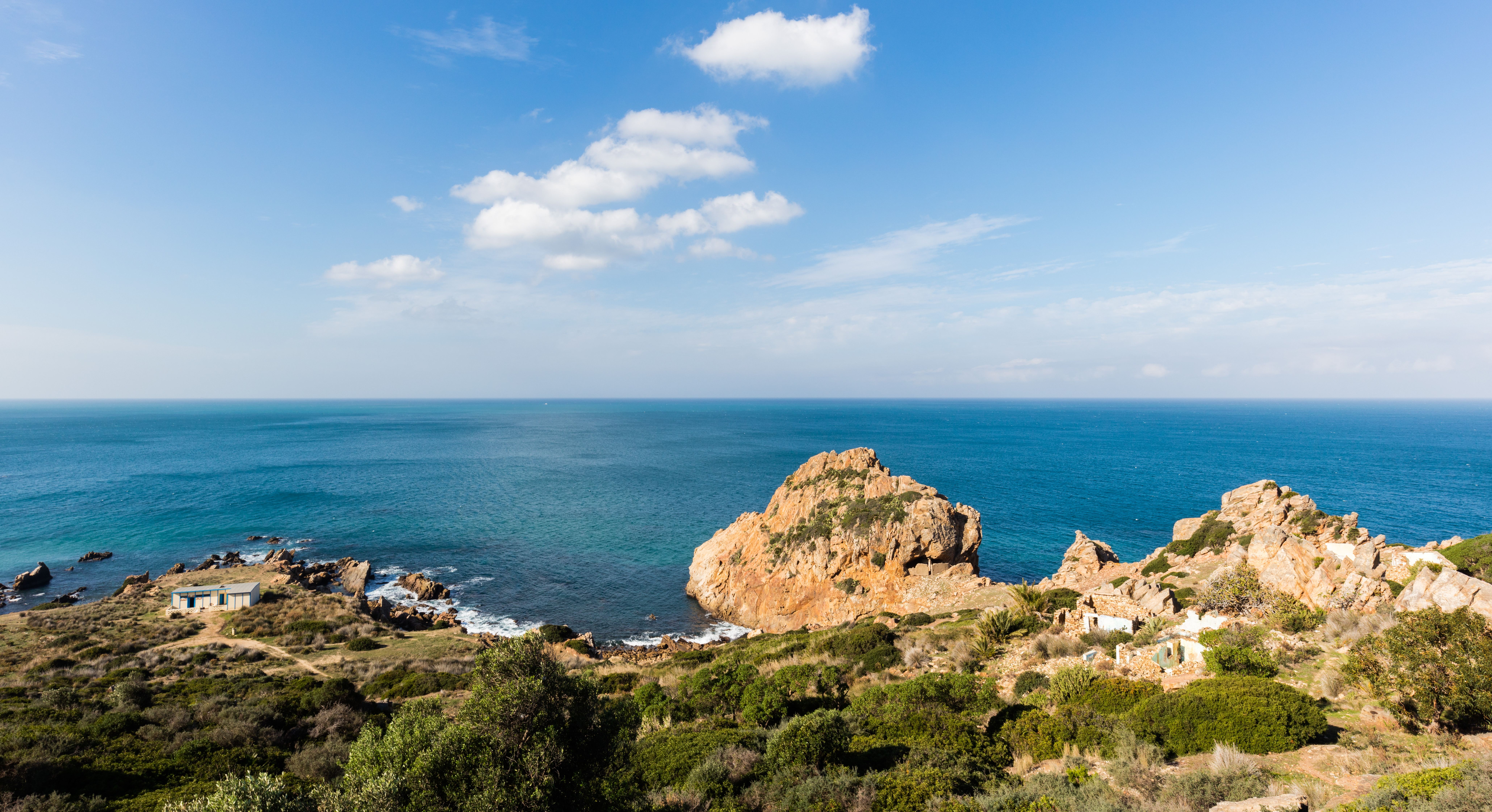 Cape Spartel, Tangier, Morocco